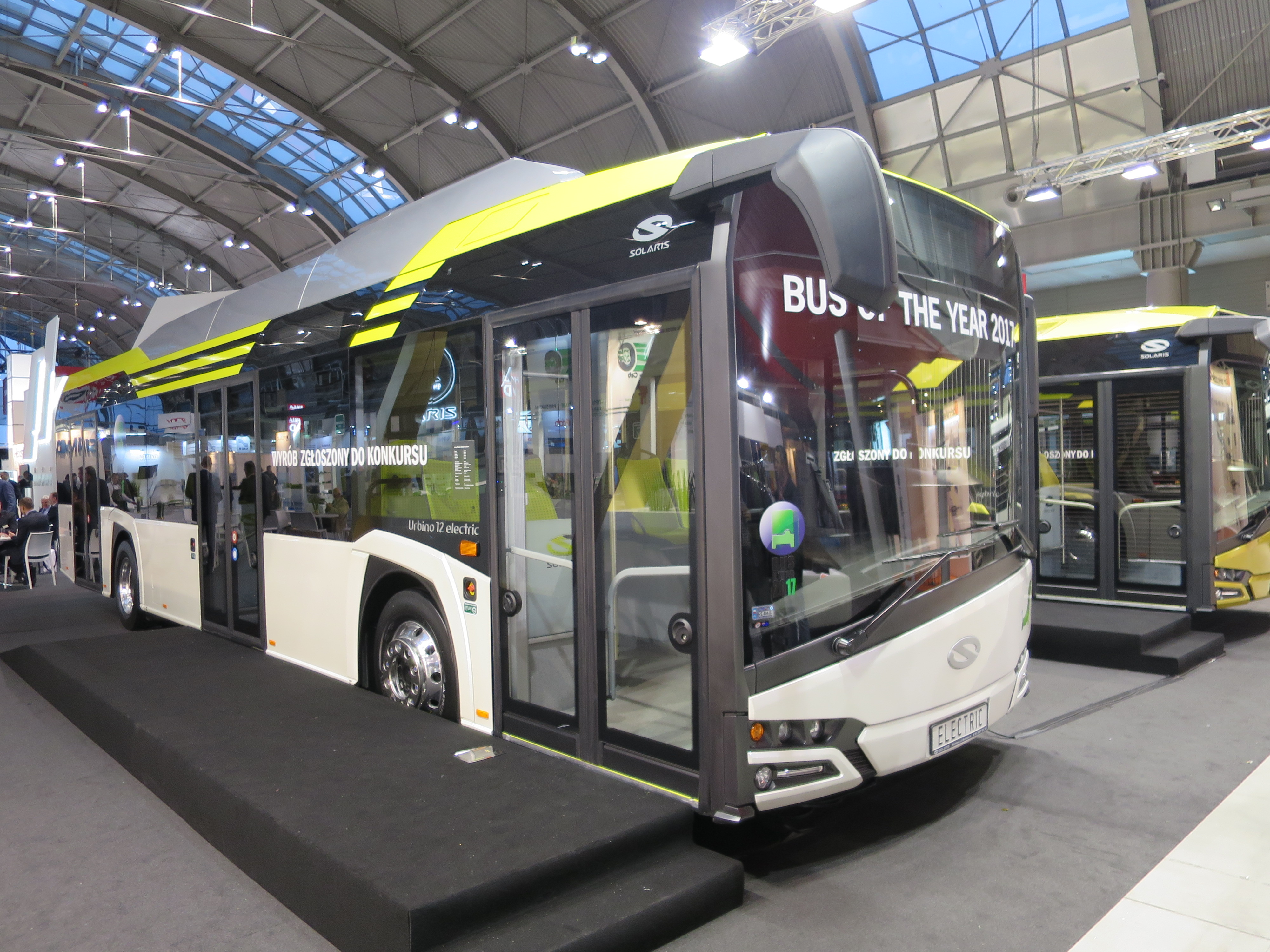 The making of this document was supported by Wikimedia Polska Association, within Wikigrant no. WG 2016-45. Solaris Urbino 12 Electric